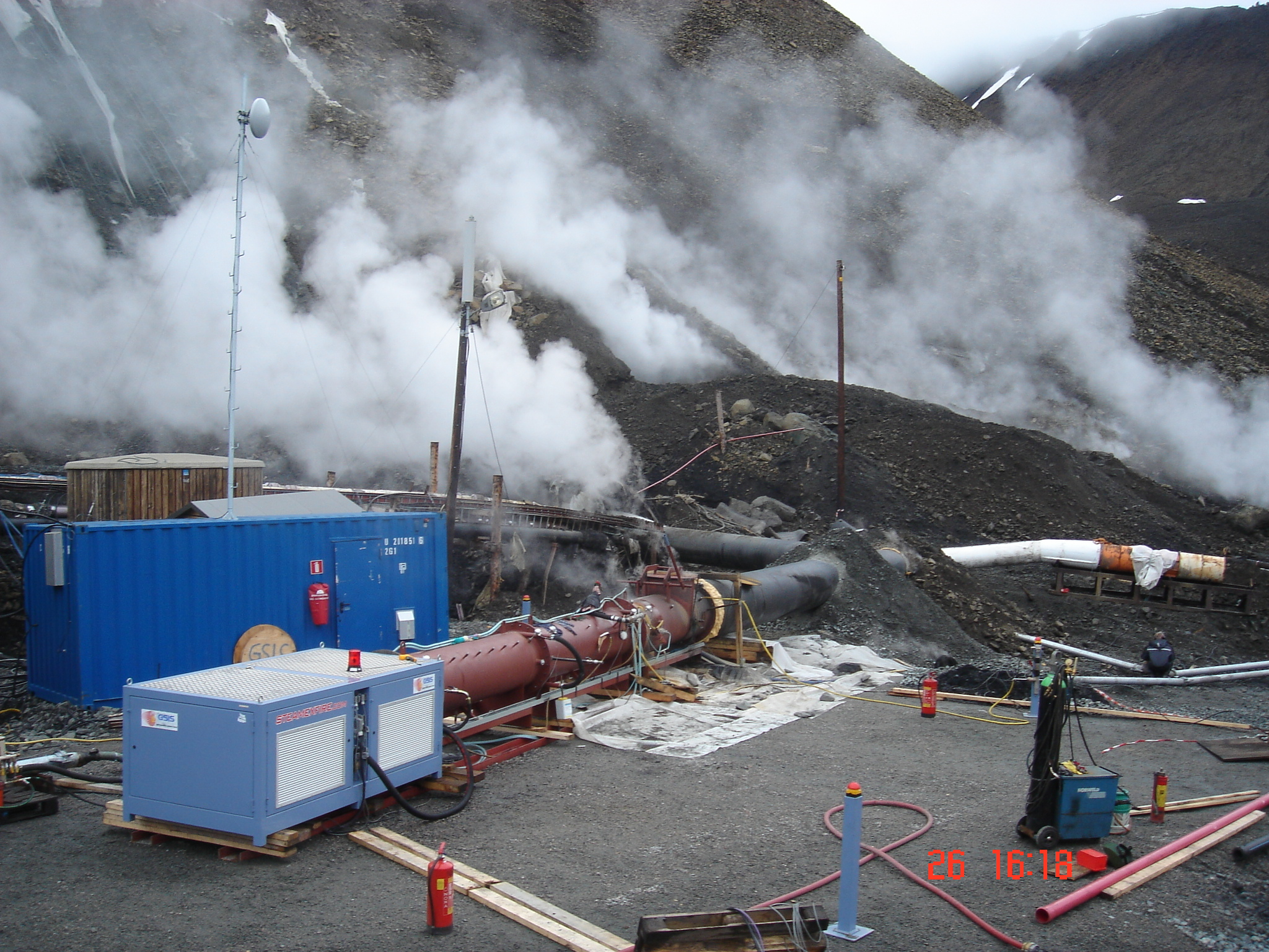 Steamexfire in action, extinguishing a coalmine fire at Spitsbergen